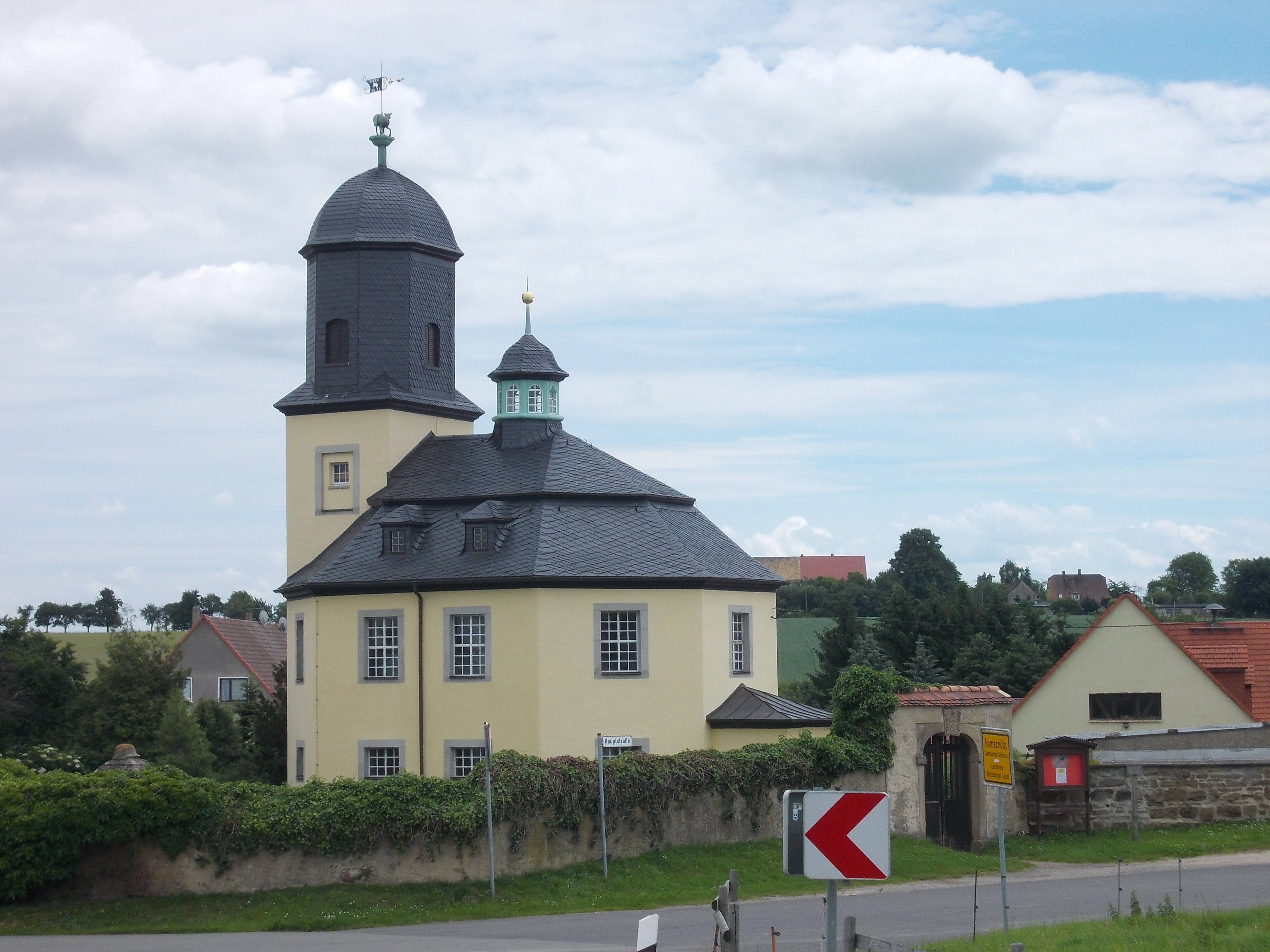 St. Matthew's Church in Romschütz (Göhren, district of Altenburger Land, Thuringia)